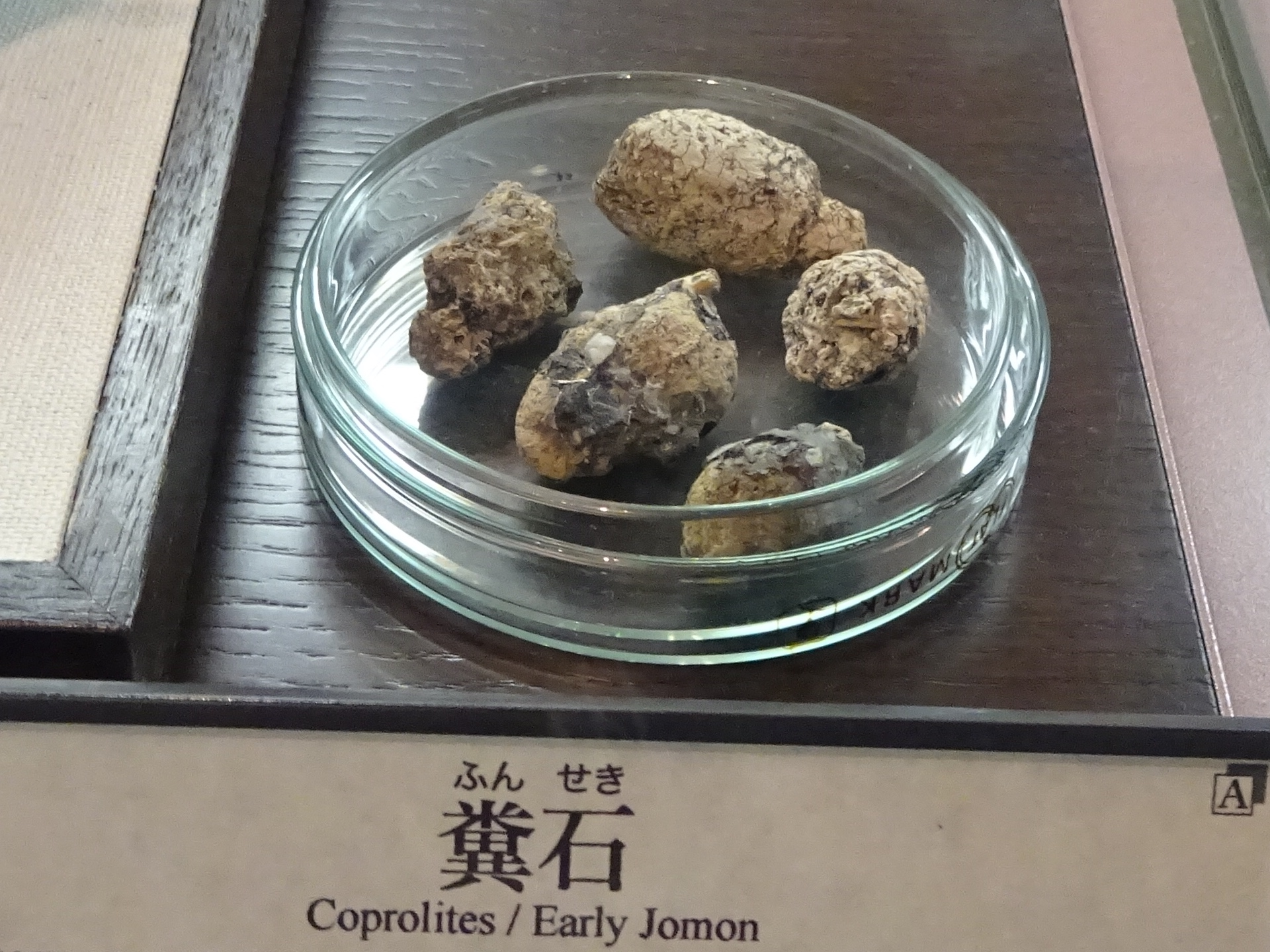 Coprolites. Early Jōmon period. Torihama shell mound. Exhibit at Niigata Prefectural Museum of History.